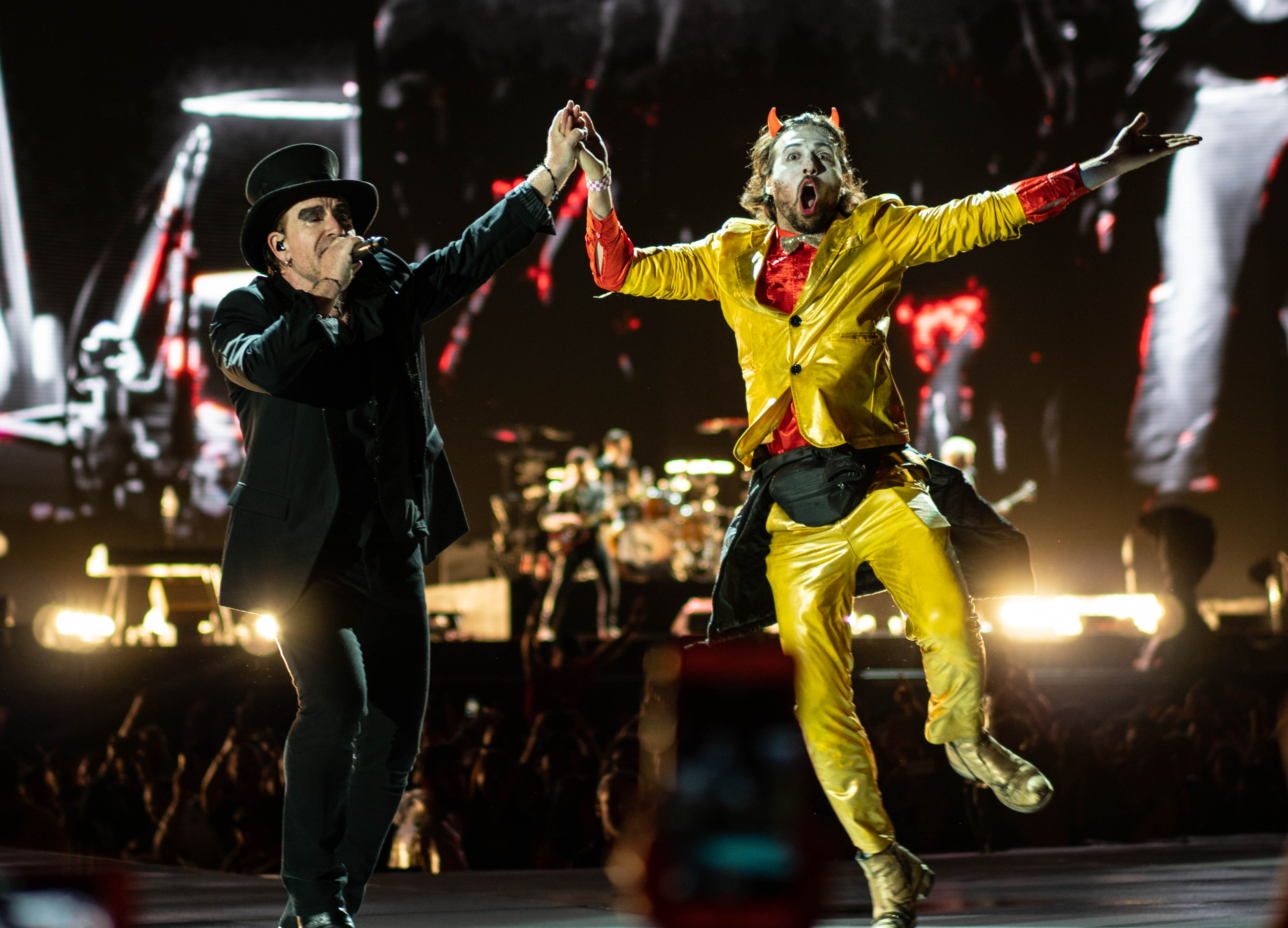 Irish rock band U2 performing at Sydney Cricket Grounds in Sydney, Australia on November 22, 2019, during the band's The Joshua Tree Tour 2019